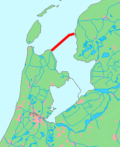 Map of Afsluitdijk, Netherlands